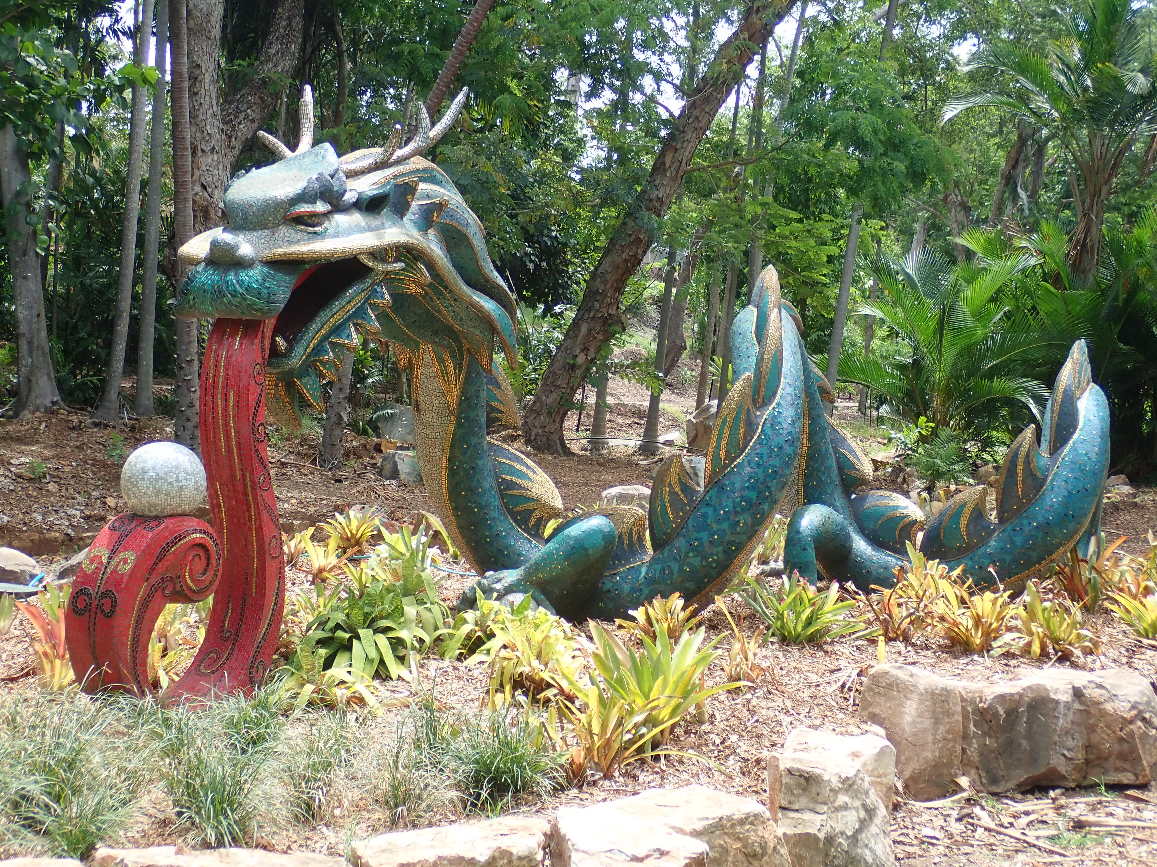 Dragon in George Brown Darwin Botanic Gardens by Darwin artist Techy Masero originally made for Finlat's stonemason yard, 2/11/2019